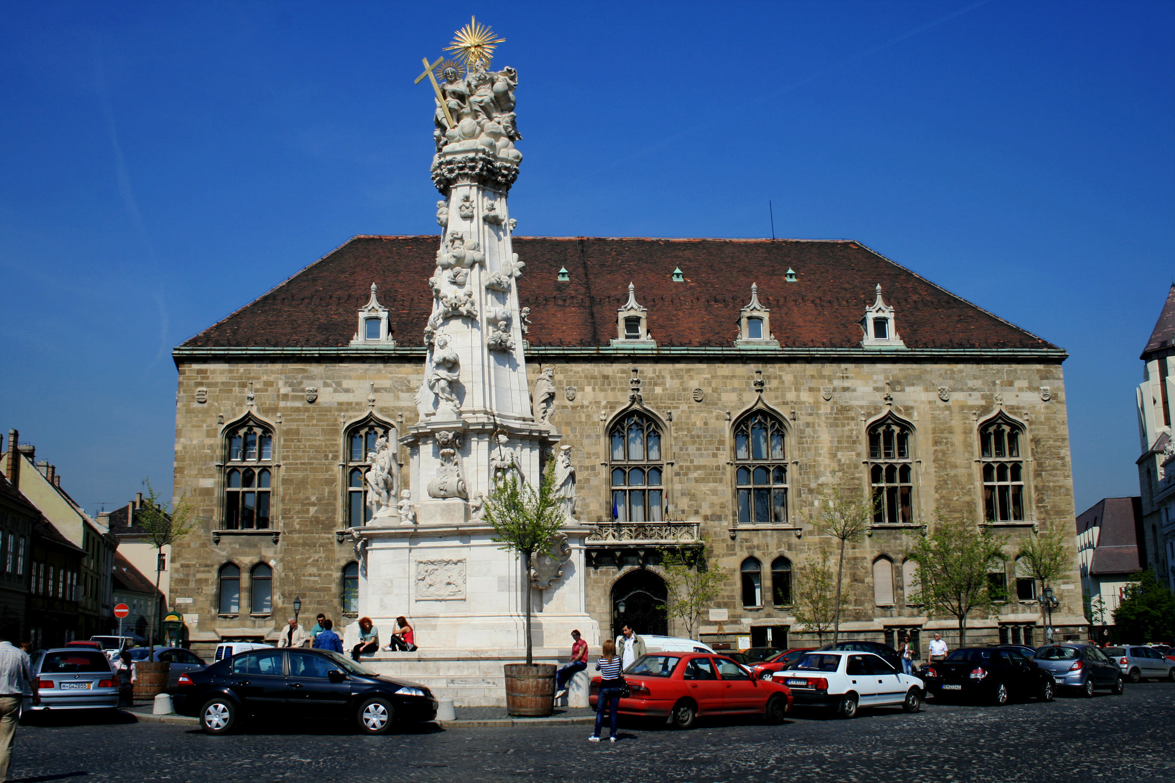 Marian and Holy Trinity column, Budapest, Hungary